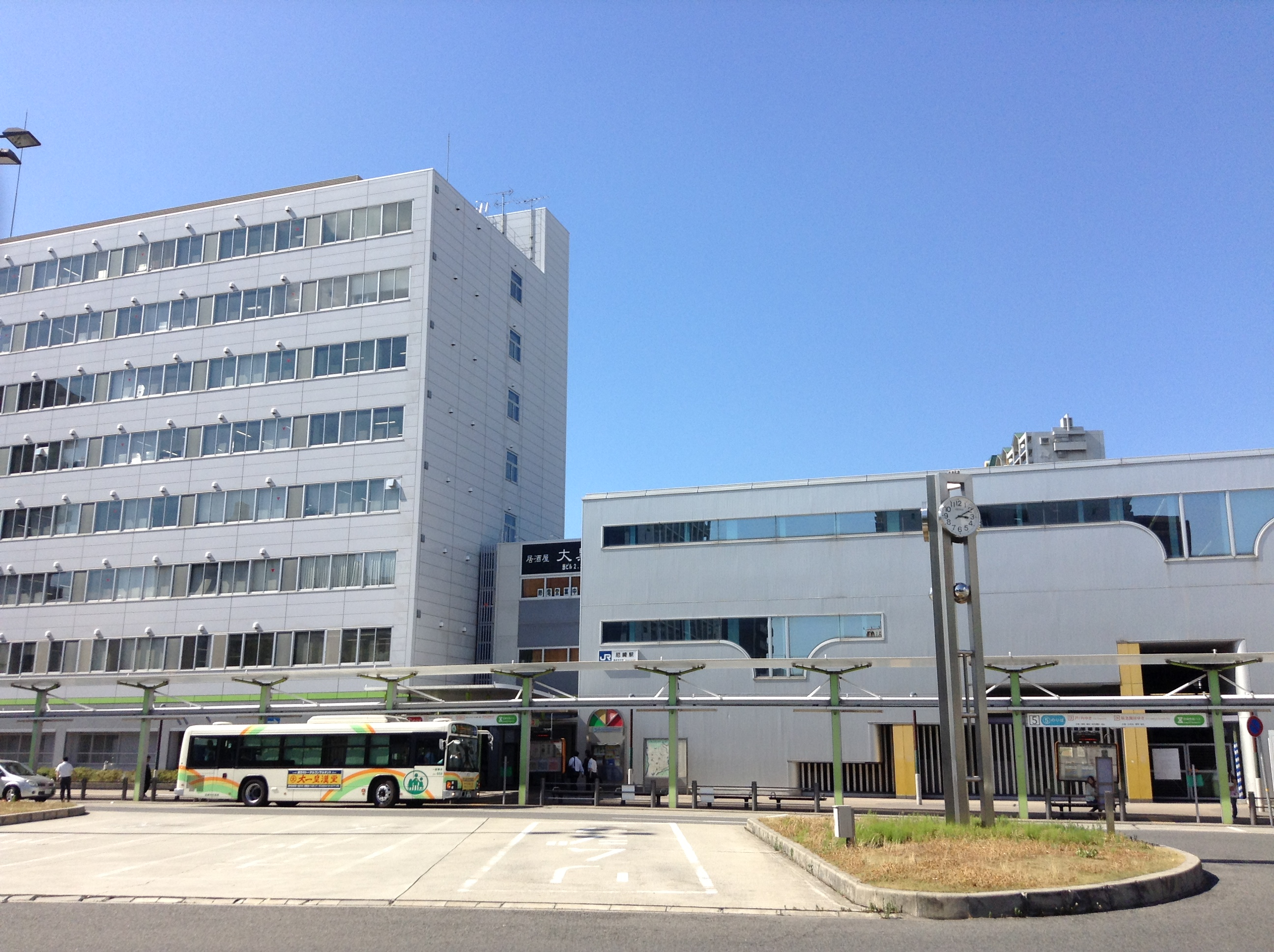 Amagasaki Station (JR West)